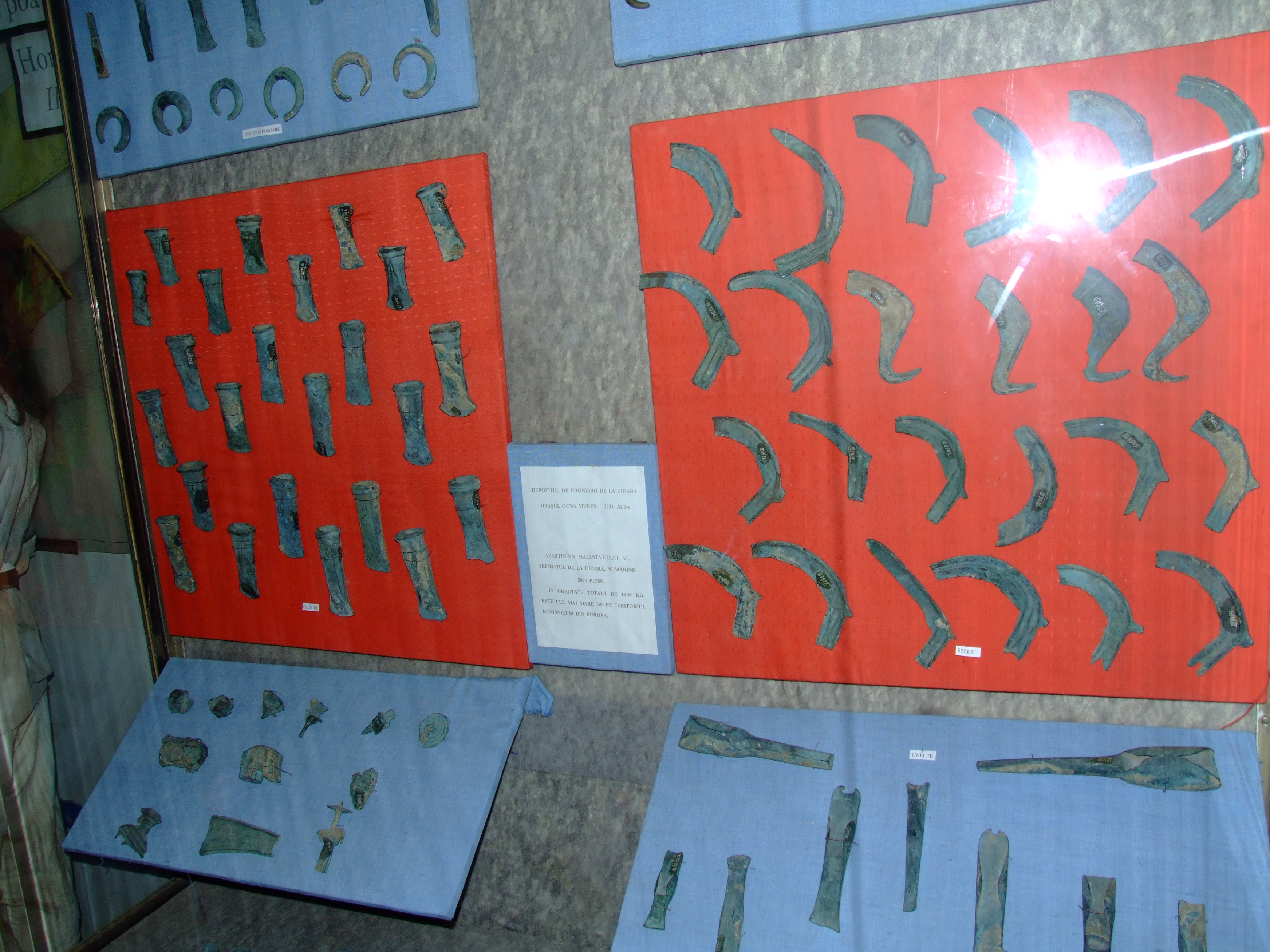 Hallstatt A1 culture artefacts discovered accidentally in 1909 in Uioara de Sus, Romania. It is one of the largest hoards of this type in Europe, containing 5,827 bronze items and weighing approximately 1,100 Kg. The hoard includes celts, chisels, hammers, axes, sickles, saw blades, knives, daggers, blades of swords, arrowheads, pendants, etc.